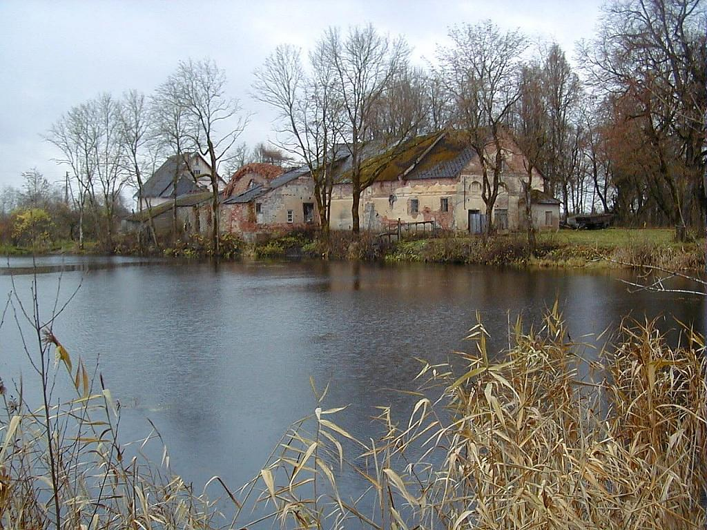 Nurmis manor buildings